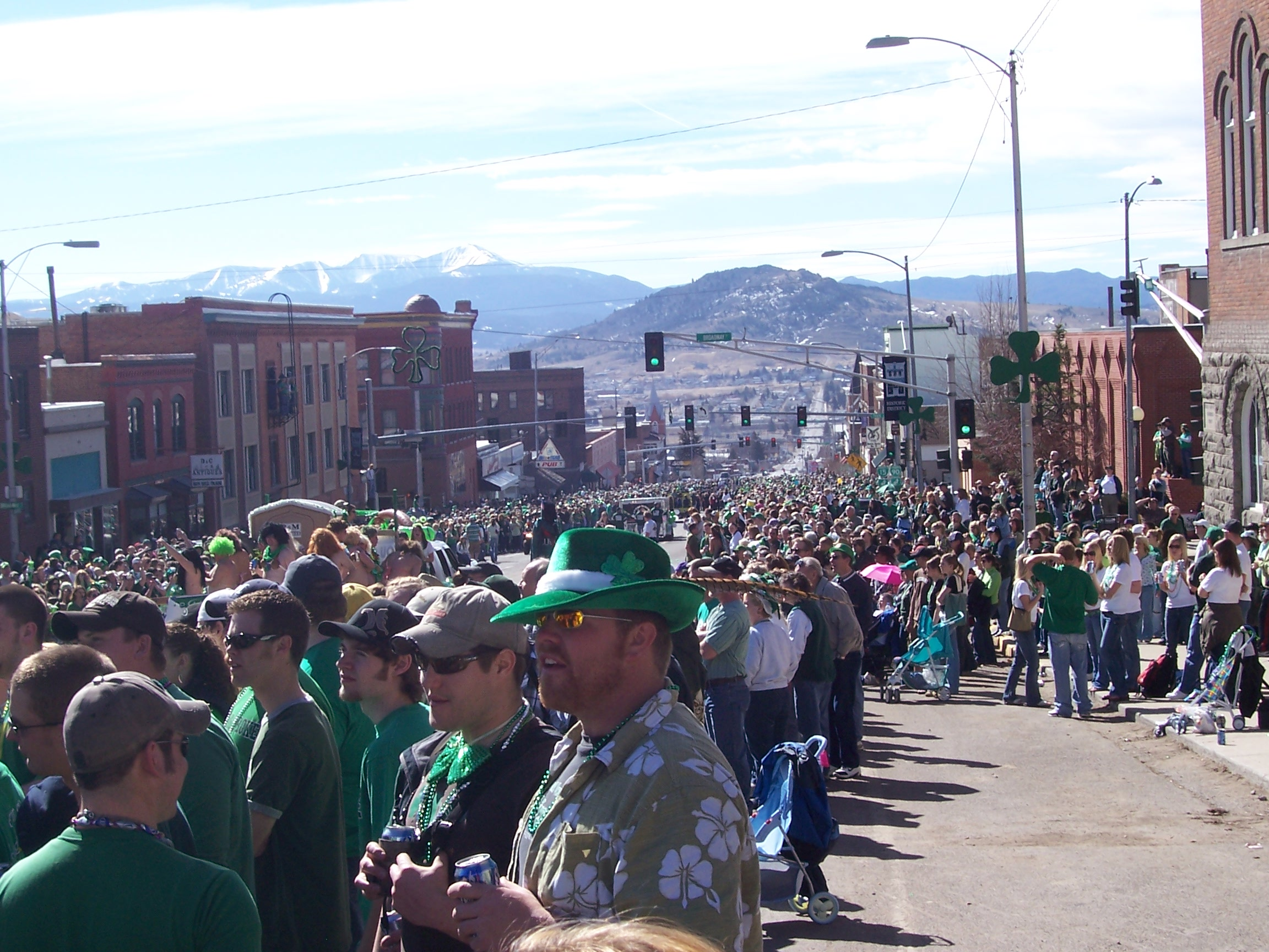 Looking south on Montana street during parade 03/17/07